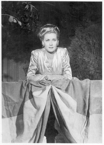 Bily Days-actriz